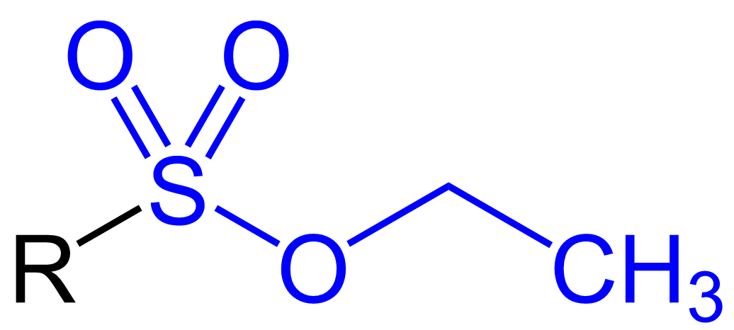 Ethylsulfoxylate